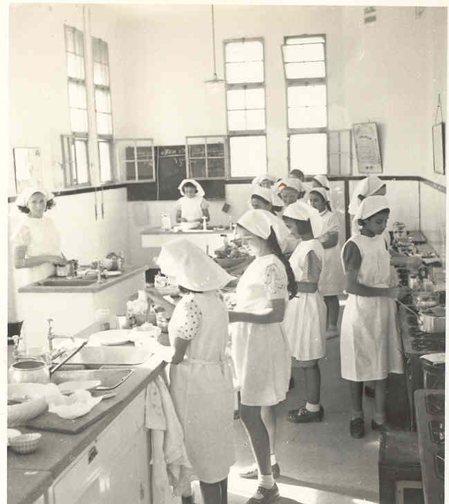 Girls taking cooking lessons in the kitchen of a girls' school in Jerusalem